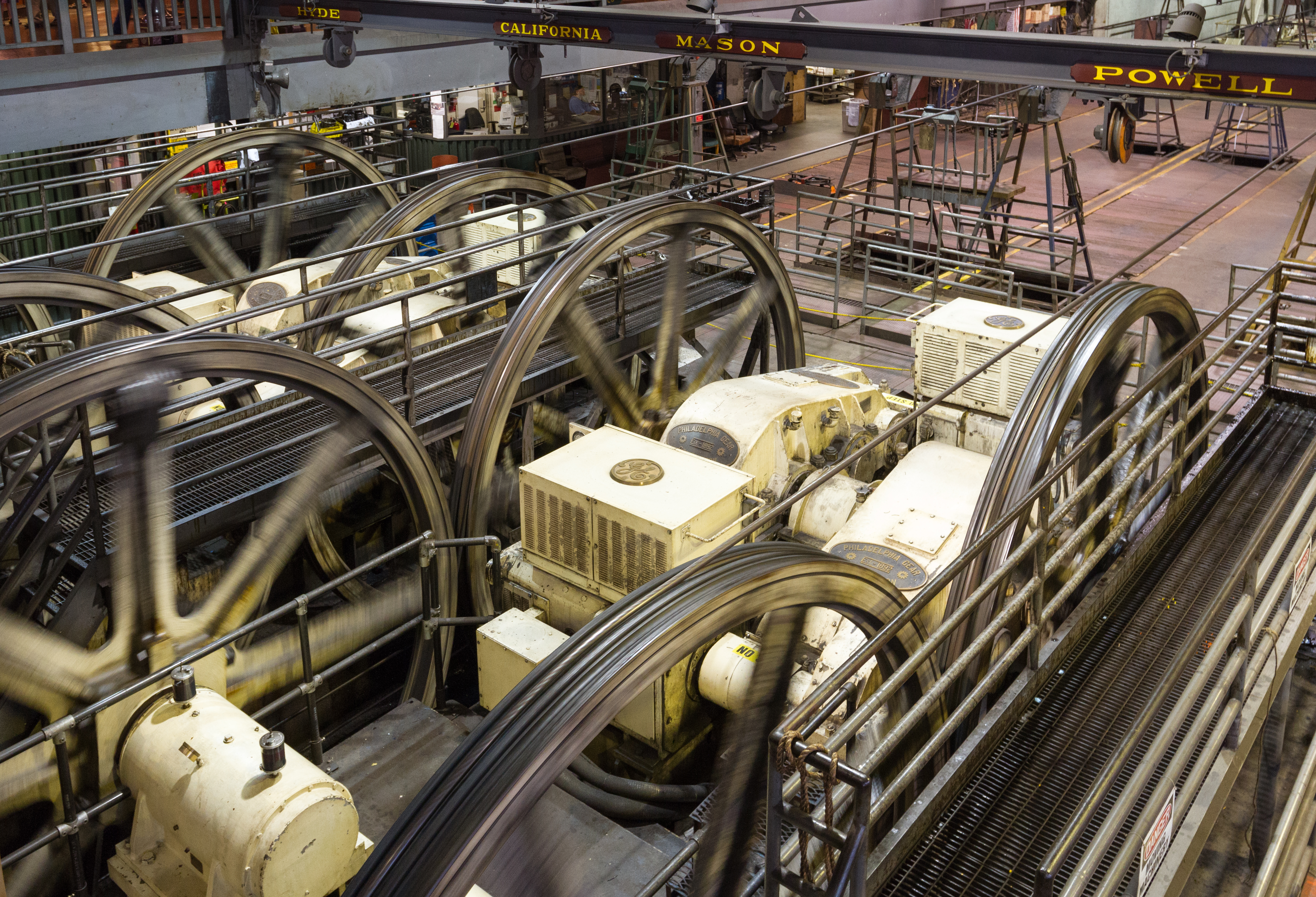 Winding machines driven by modern GE 500 hp electric motors and reduction gear boxes in the powerhouse at the San Francisco Cable Car Museum